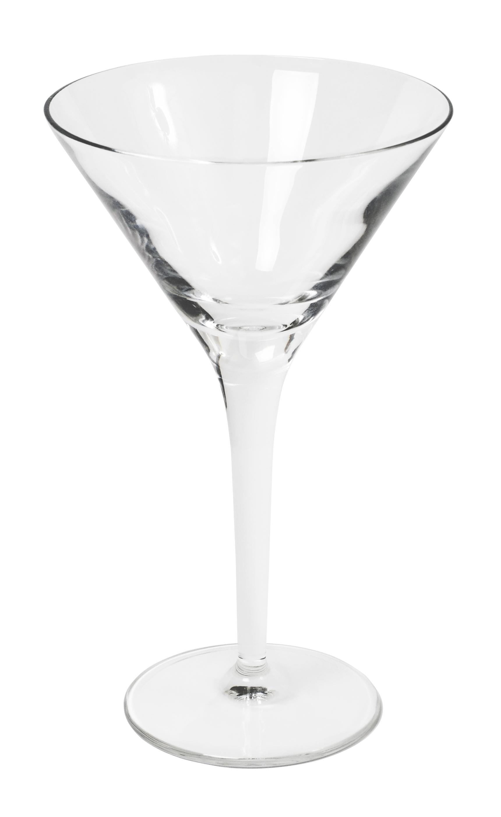 A cocktail glass that is full of air, commonly called a martini glass.